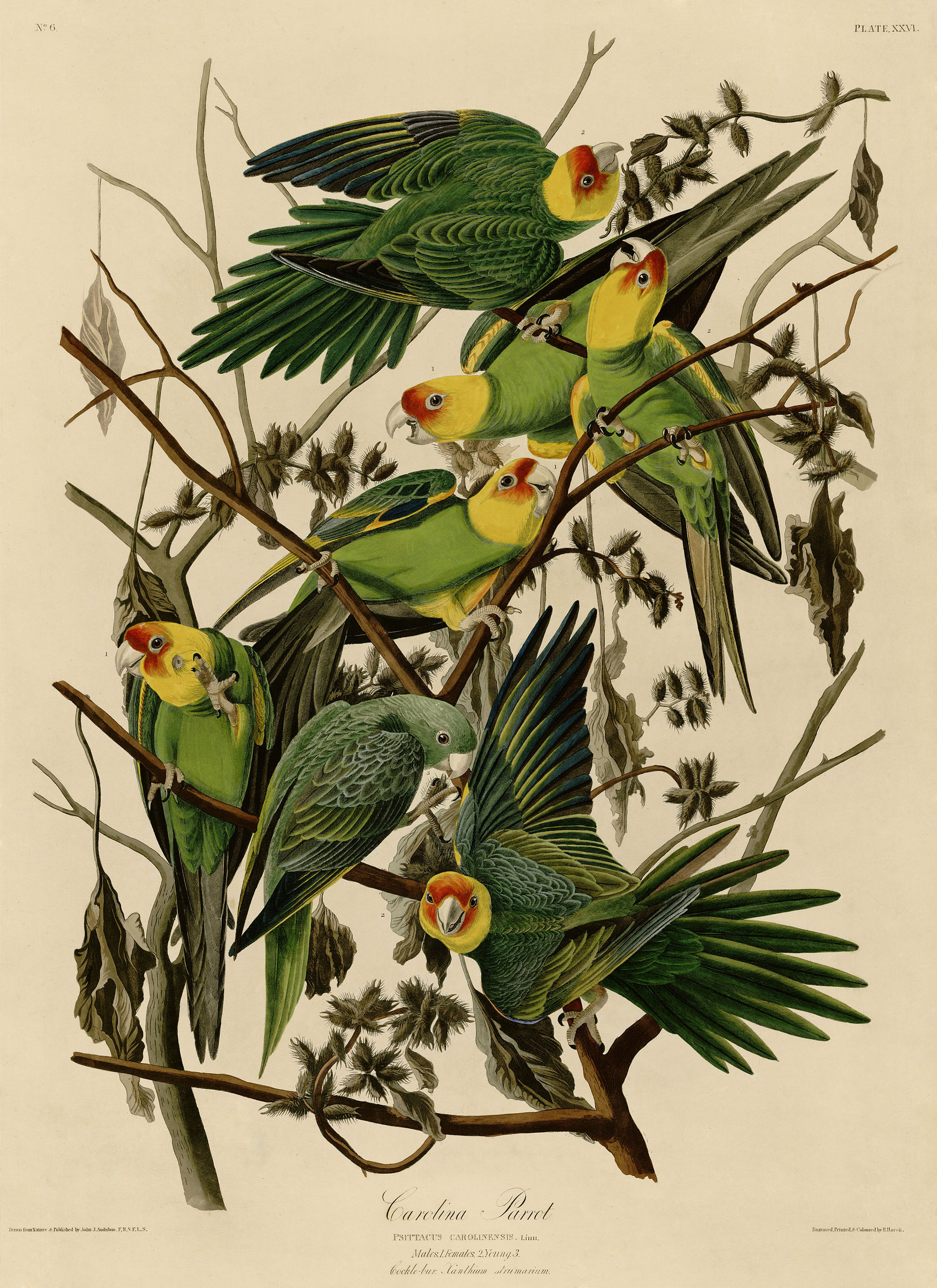 Plate 26 of Birds of America by John James Audubon depicting Carolina Parrot.